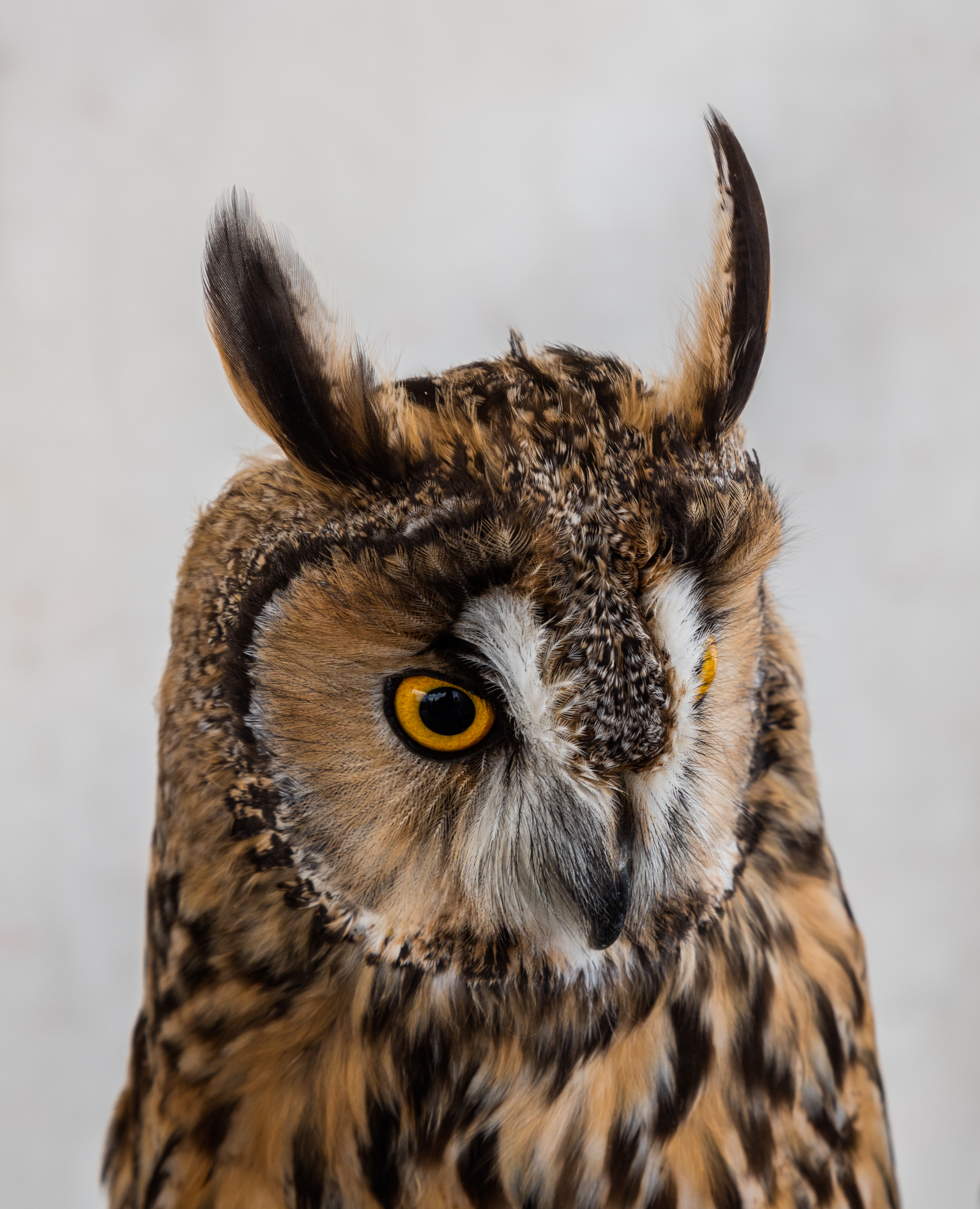 Long-eared owl (Asio otus), Arcos de la Frontera, Cádiz, Spain